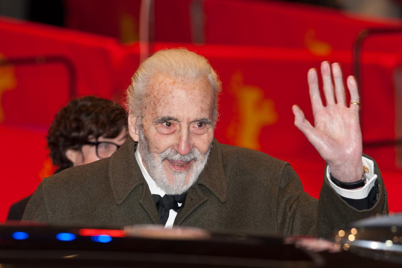 British actor Sir Christopher Lee, Opening of the 62nd Berlin International Film Festival